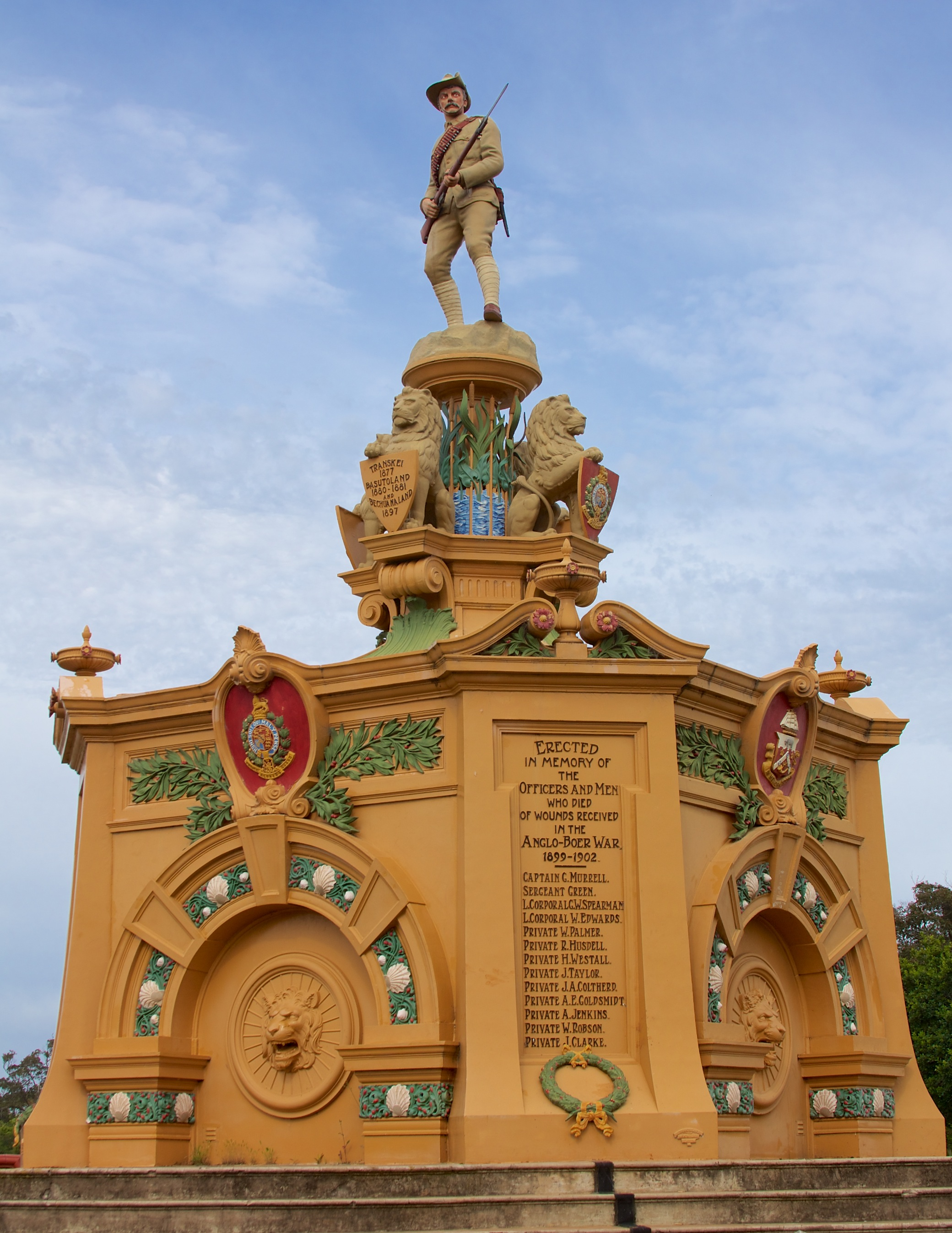 Prince Alfred's Guard Memorial in St George's Park in Port Elizabeth in South Africa's Eastern Cape province. This media shows a South African Protected Site with SAHRA file reference 9/2/073/0032.